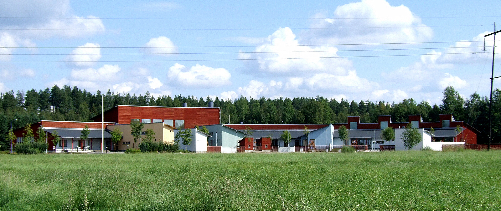 The municipal multipurpose building (nursery, school etc) in Heikkilänkangas, Oulu, Finland